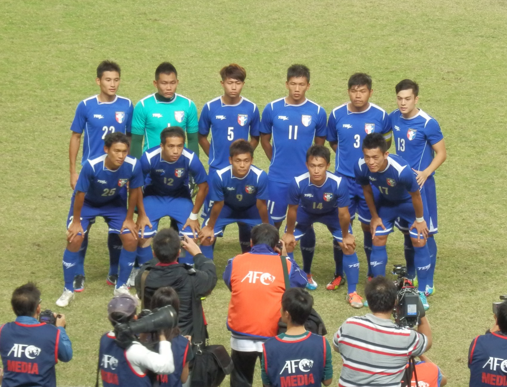 Chinese Taipei national football team against Cambodia at a friendly match on Oct. 8, 2014